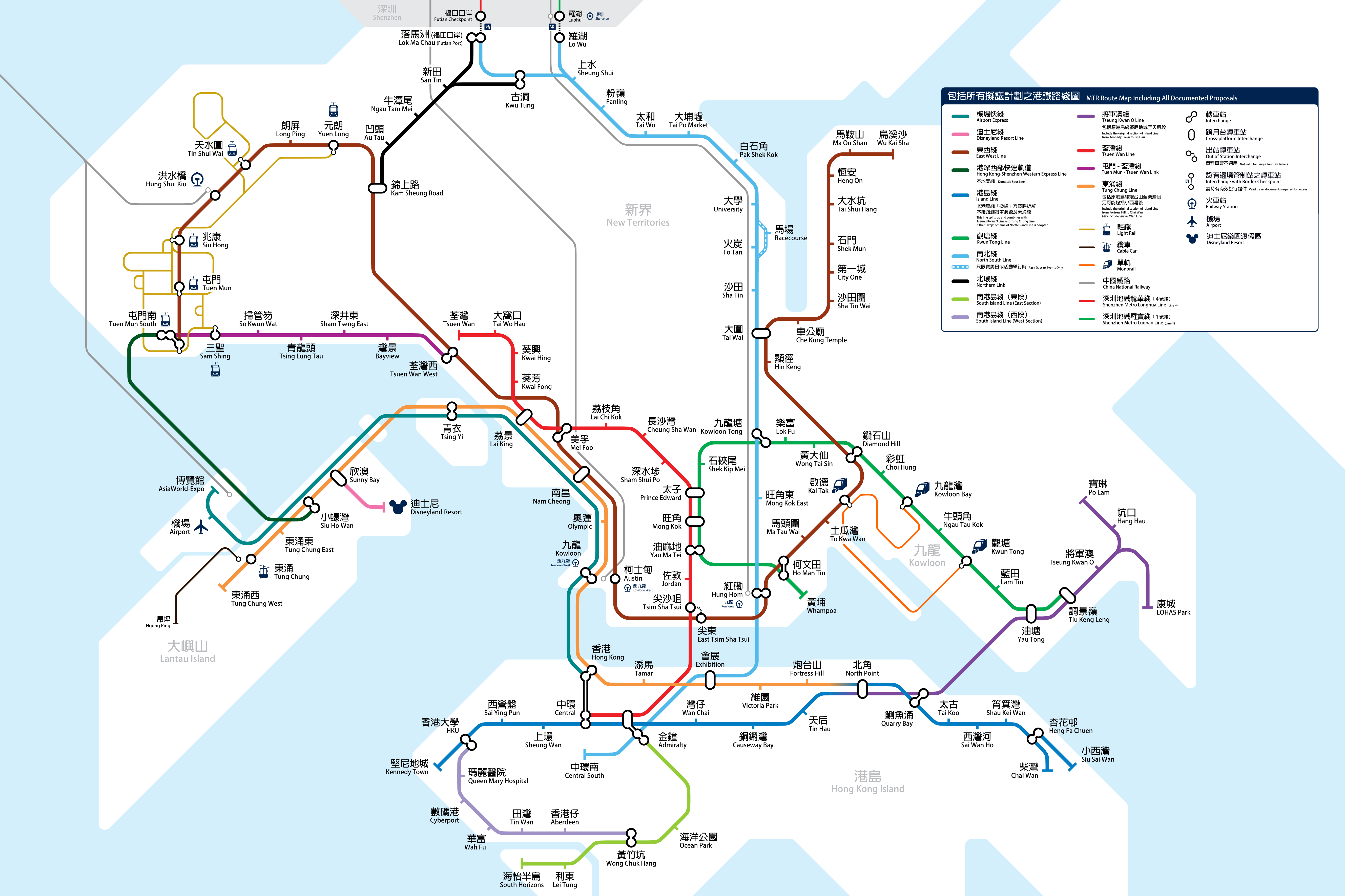 MTR Route Map Including All Documented Proposals 中文（香港）: 包括所有擬議計劃之港鐵路綫圖